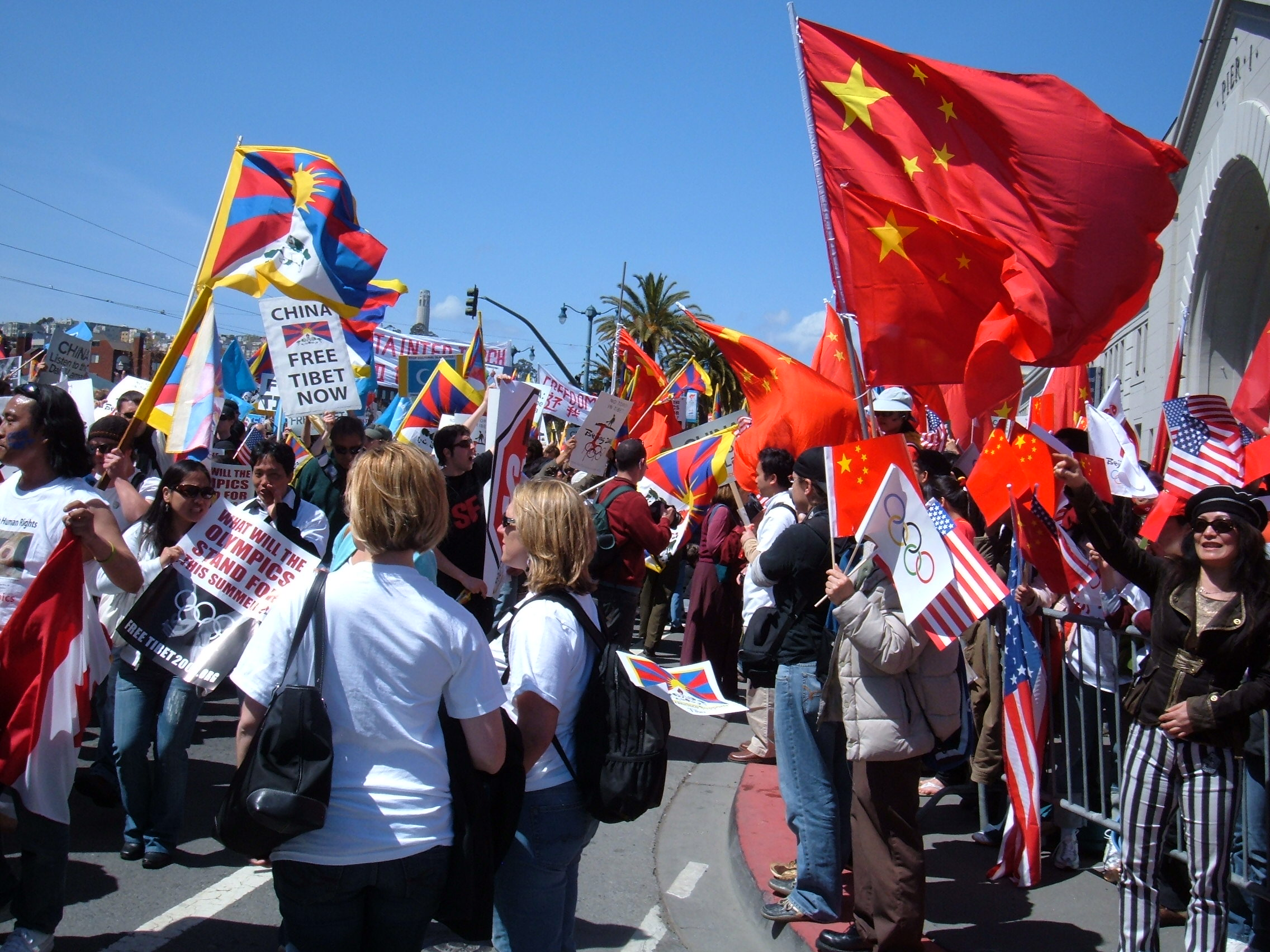 Part of a large group of pro-Tibetan protesters moving south along the northbound lanes of The Embarcadero come into contact with pro-Chinese protesters near Pier 1. For an explanation and additional photos of my experience during the relay please see User:BrokenSphere/Gallery/San Francisco Bay Area/San Francisco/2008 Olympic Torch Relay.